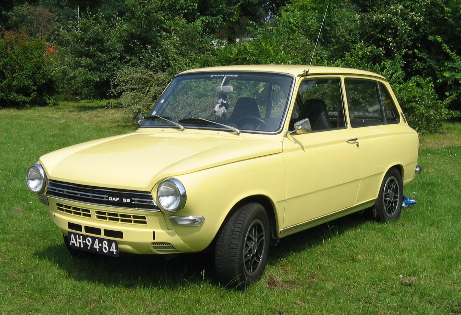 A DAF automobile at the DAF exposition during the Eindhoven Pole Position weekend.